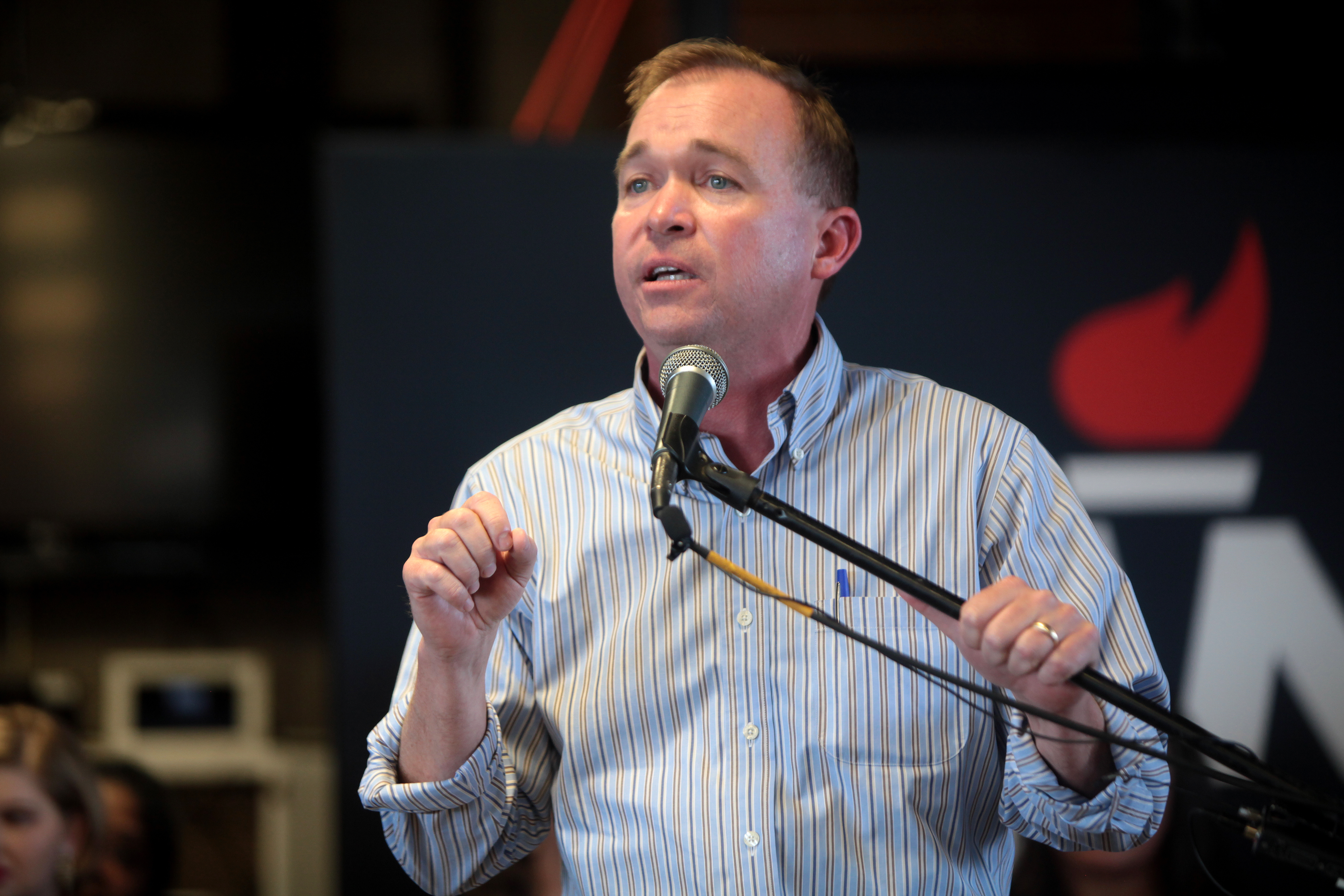 Mick Mulvaney speaking at an event in Spartanburg, South Carolina.